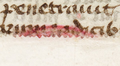 Small part of folio 223r of Yale Beinecke Library MS 350- a volume of the Speculum Historiale by Vincent of Beauvais- showing attempt (probably mid-20th century) to remove ownership stamp before the item was offered to Yale. Note that K. Seaver, "Maps, Myths and Men" (2004) p120 incorrectly gives the folio as 233 instead of 223.